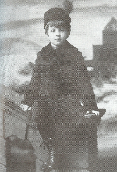 Photograph of Vyvyan Holland (1886-1967)